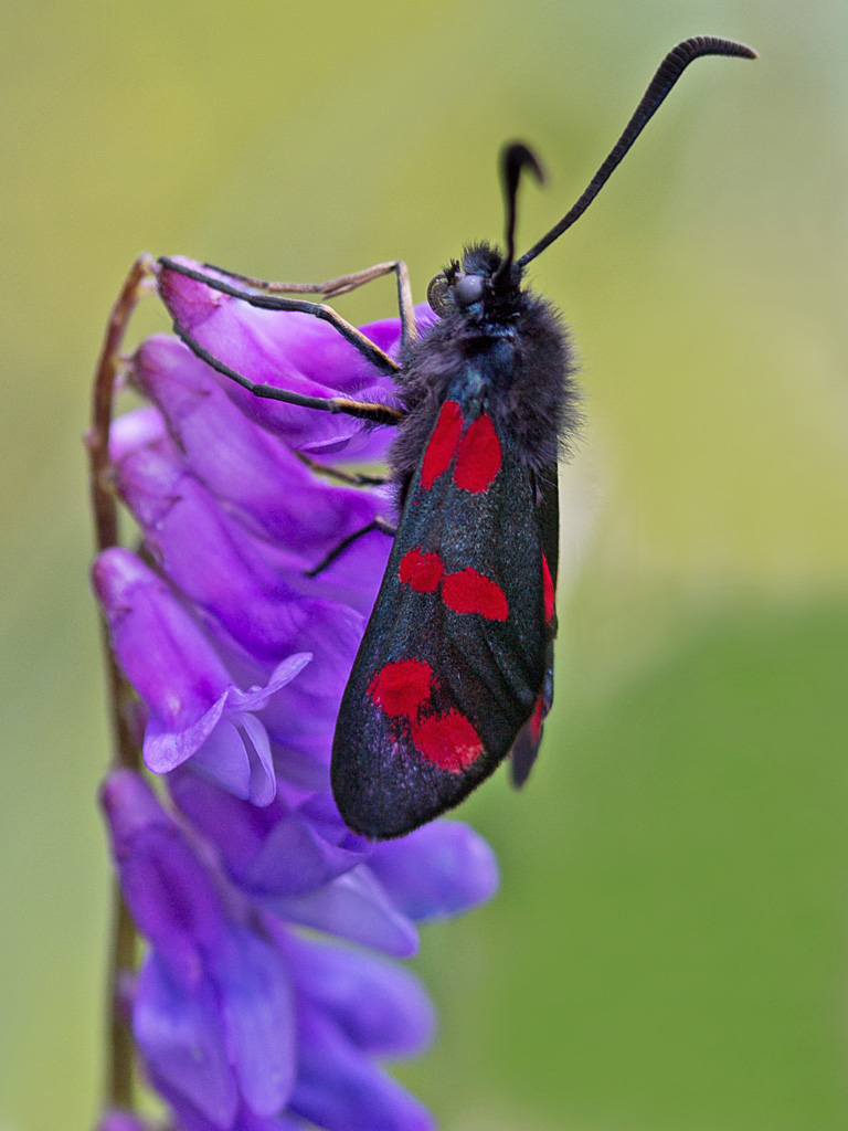 Zygaena filipendulae Six spot Burnet 7-30-12